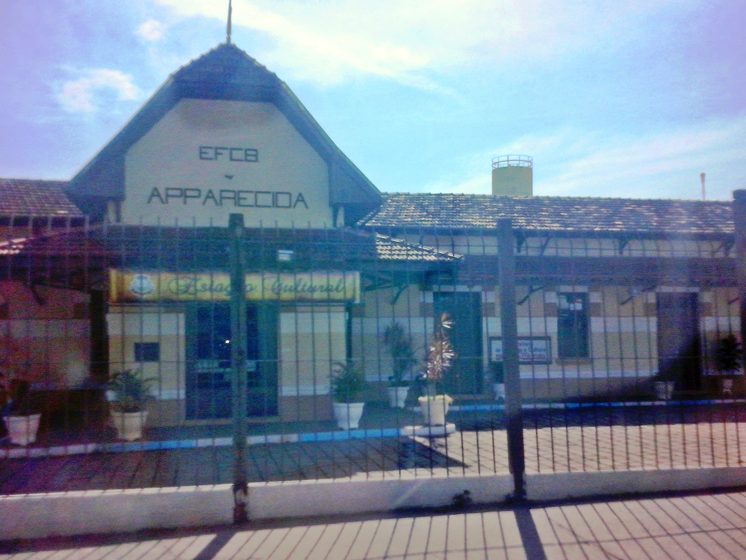 Front of the Cultural Station of Aparecida, São Paulo, Brazil, that was the train station of the city.